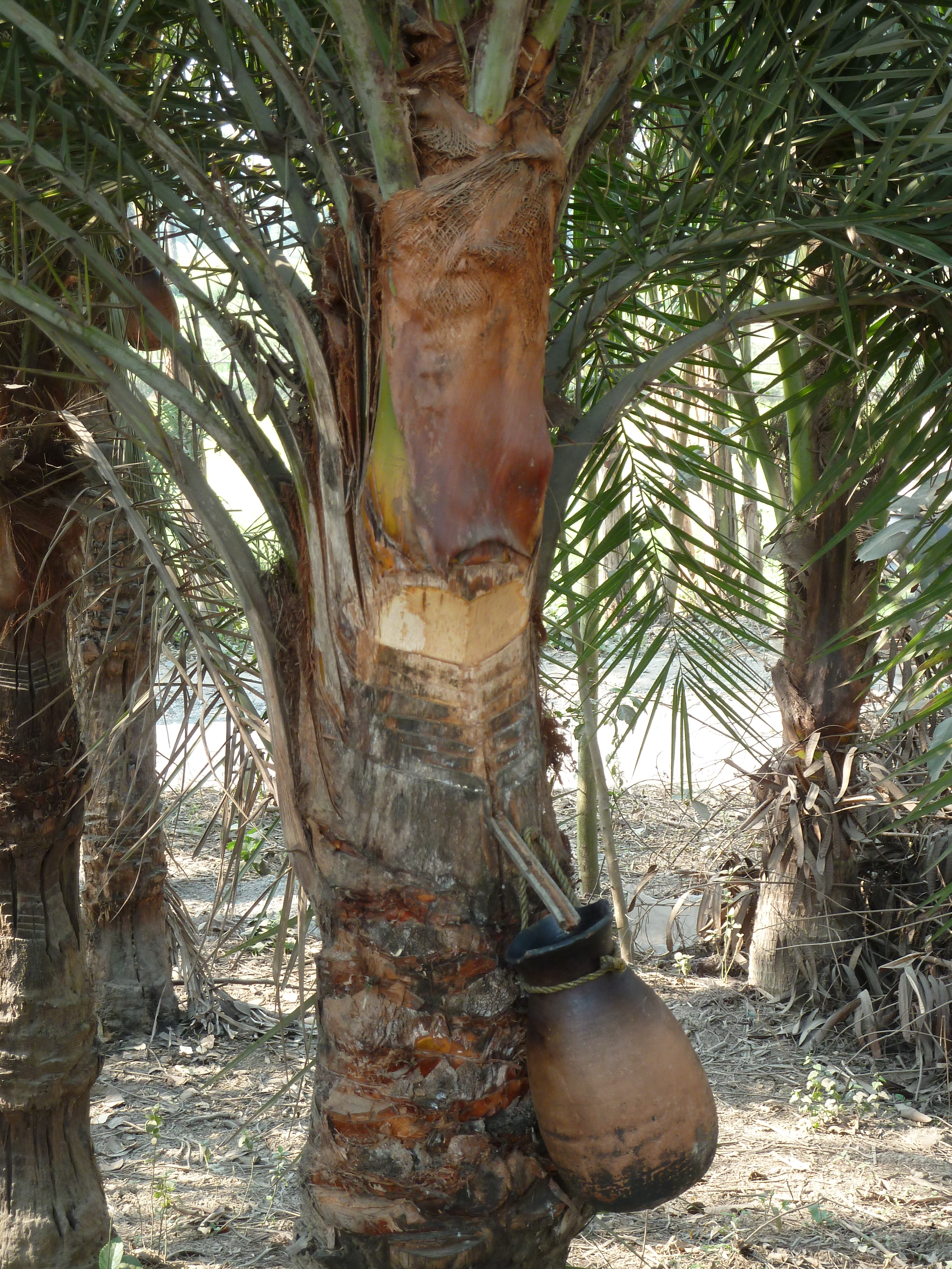 The photo shows how the sweet sap is tapped from Date Palm tree in Nadia district, West Bengal, India. Jaggery is made from this sweet sap.